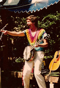 i own all rights to this i am dave fry